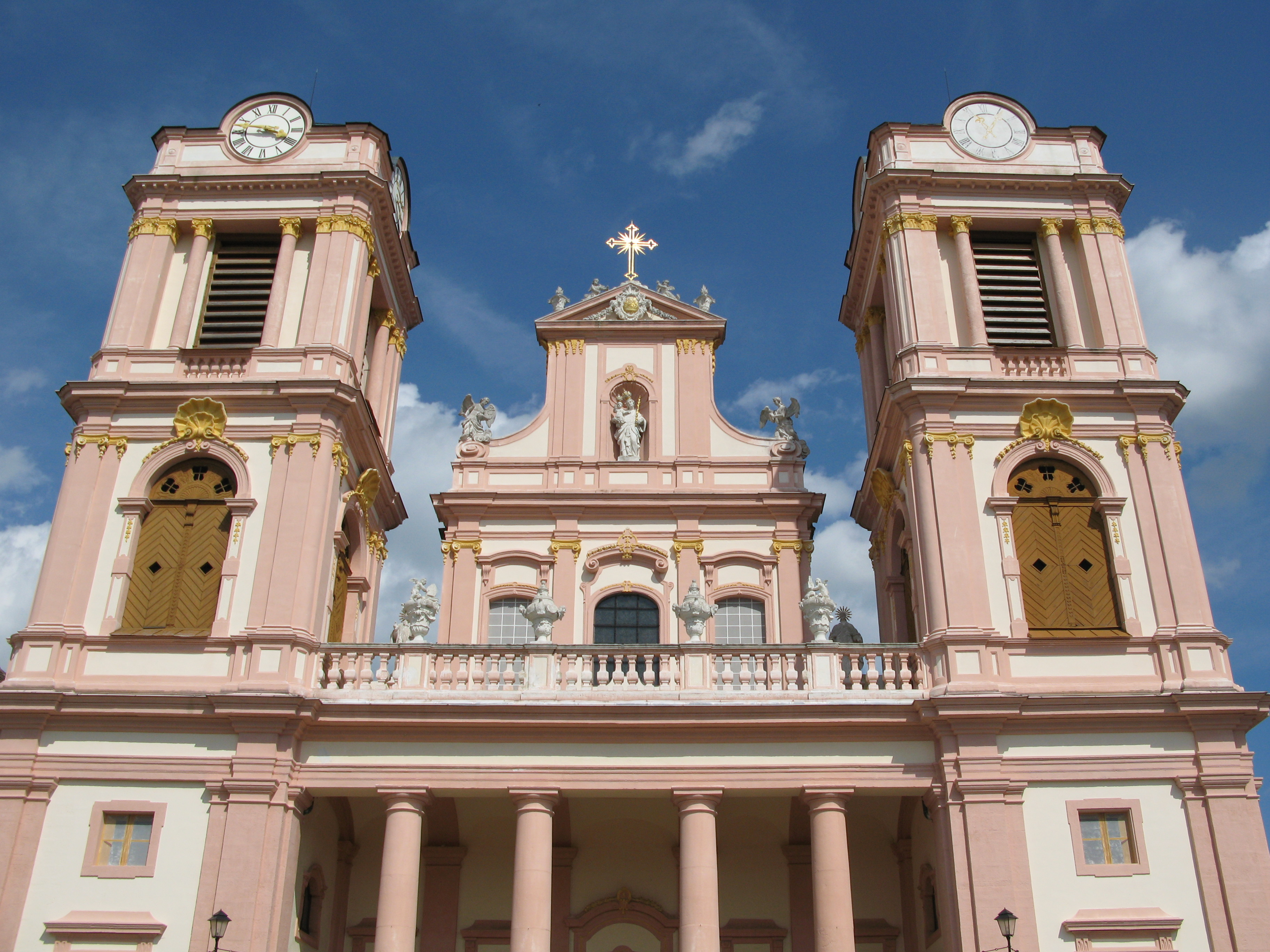 Göttweig Abbey situated on the Göttweig Mountain, is - because of its location - sometimes called the Austrian Montecassino. The Monastery sits on a hill 449 m above sea level in the Dunkelsteiner Forest south oft the city of Krems, on the eastern edge of the world-famous Danube Valley called the Wachau.With the Wachau, Göttweig was in 2001 placed on the UNESCO World Heritage List. The description is taken from the below Link